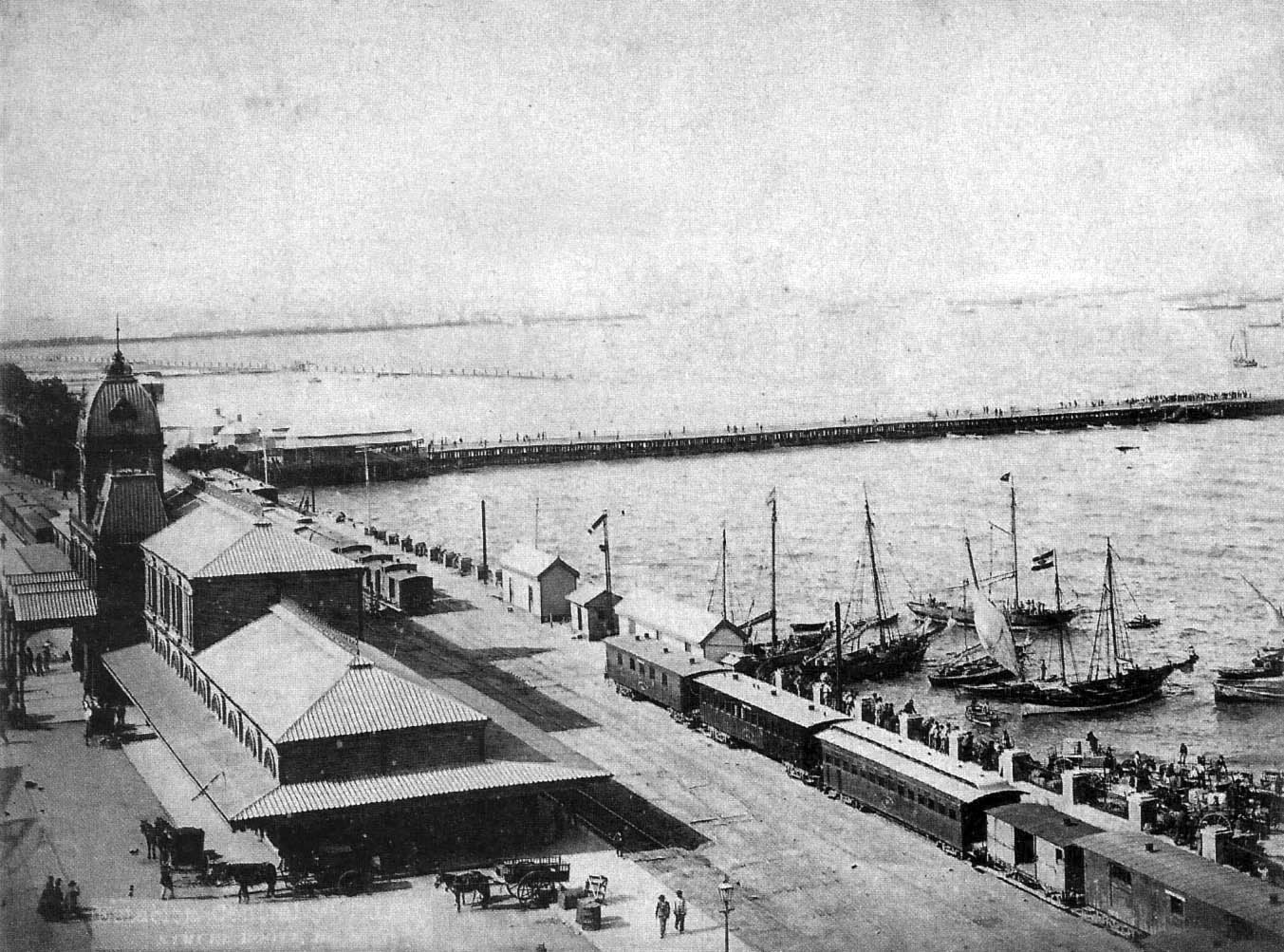 Estación Central ("central station") of Buenos Aires, placed on Paseo de Julio (currrent L.N. Alem) avenue between La Piedad (B. Mitre) and Cangallo. At right, the Rio de la Plata with the passengers dock and customs entrance (front) and the Catalinas dock (far at background). The station had been built in 1867 and destroyed by fire on February 14, 1897.